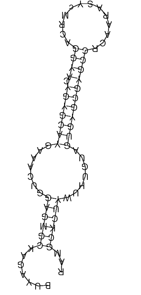 RNA secondary structure of TB11Cs2H1 generated by the WAR server( It is the consensus structure from 8 Trypansomatid species -Leishmania major, Leishmania infantum, Leishmania braziliensis, Trypanosoma brucei, Trypanosoma brucei gambiense, Trypanosoma cruzi, Trypanosoma congolense, Trypansoma vivax